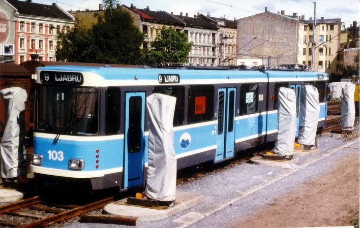 SL79 no. 103 of the Oslo Tramway upon delivery at Oslo East Station